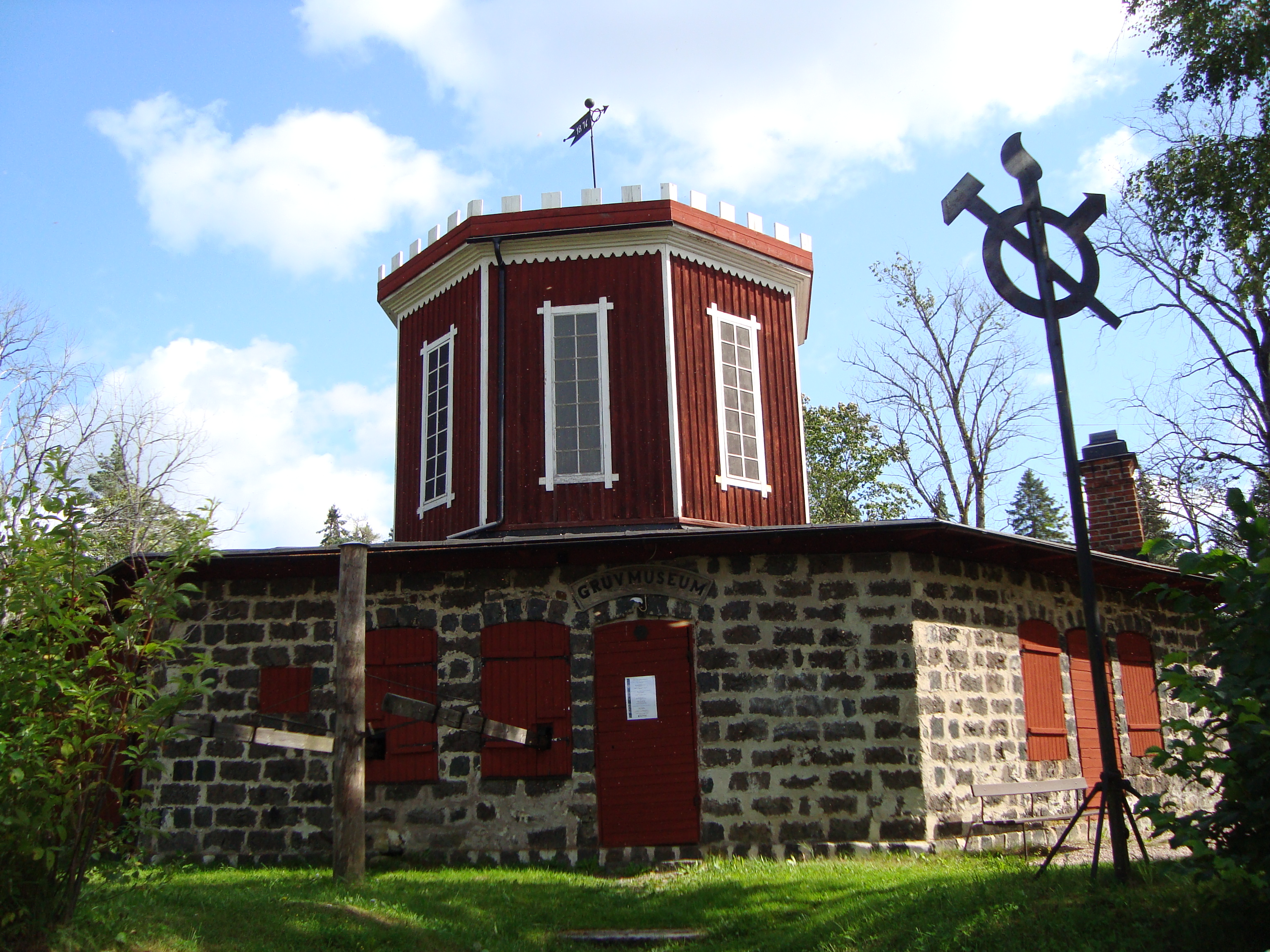 Mine museum of Mossgruveparken, Kärrgruvan, Sweden